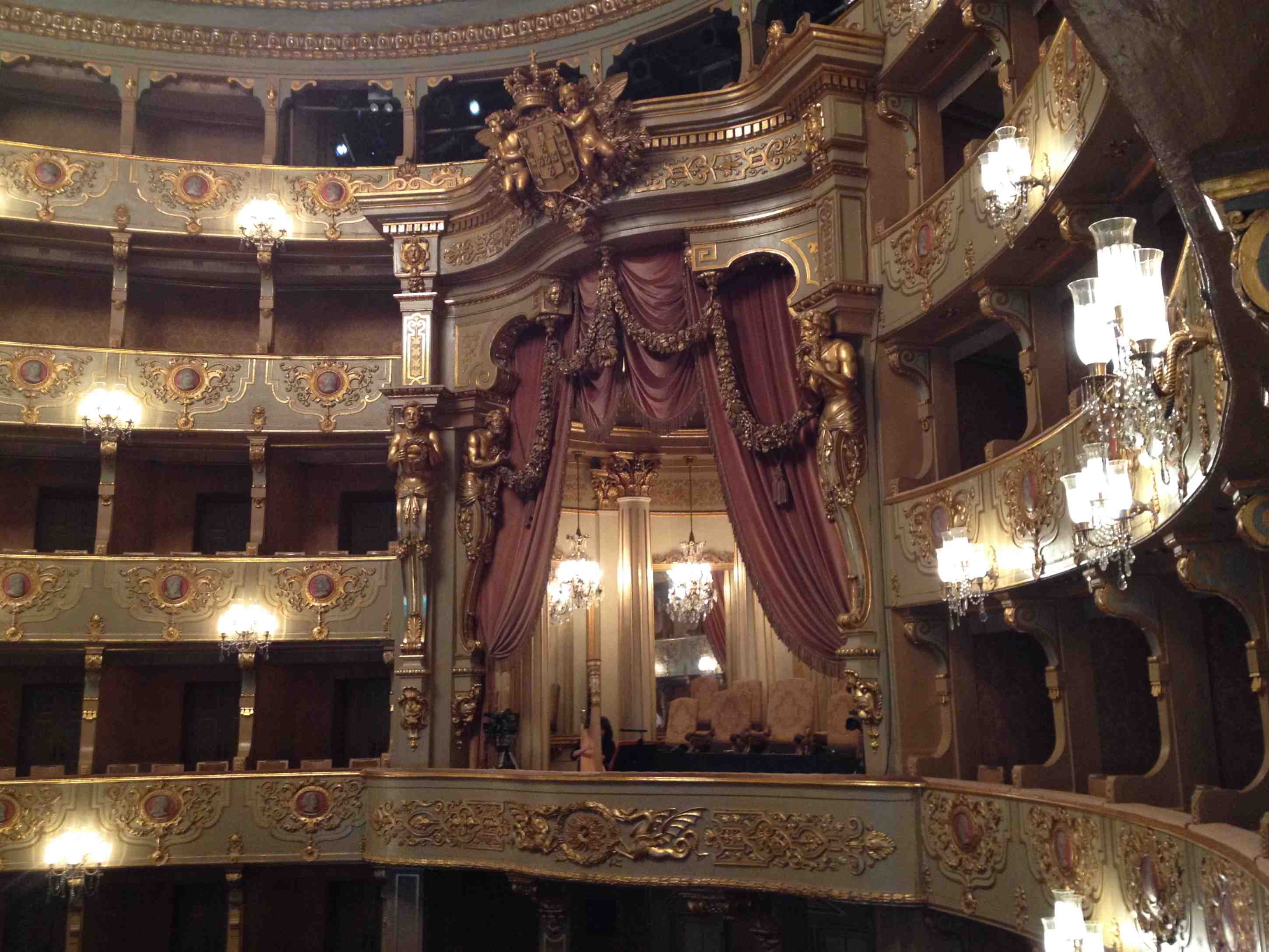 Interior of the National Theater of São Carlos, Lisbon, Portugal.